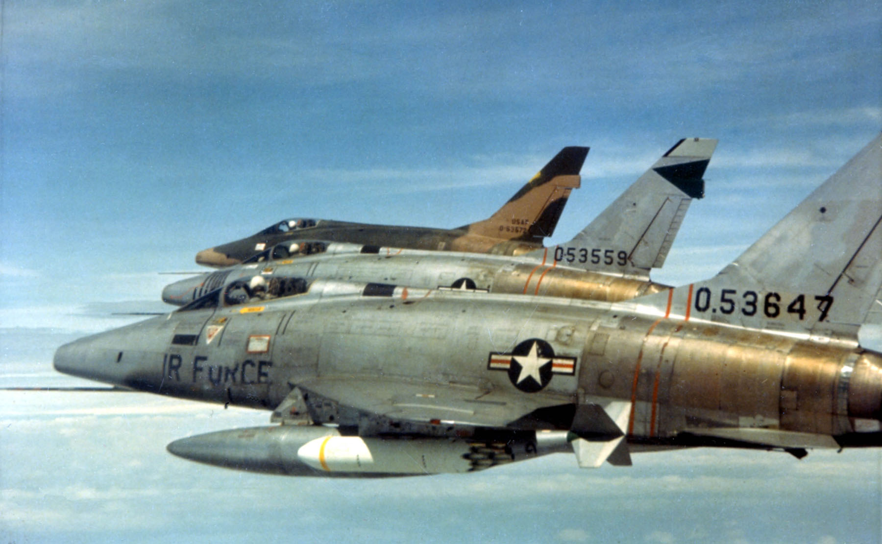 Three U.S. Air Force North American F-100D Super Sabres of the 481st Tactical Fighter Squadron over South Vietnam in February 1966. Early F-100s were unpainted when they arrived in Southeast Asia like the foreground aircraft, but all eventually received camouflage paint like the aircraft in the back. Visible are F-100D-20-NA s/n 55-3559 and s/n 55-3572, and F-100D-25-NA s/n 55-3647.